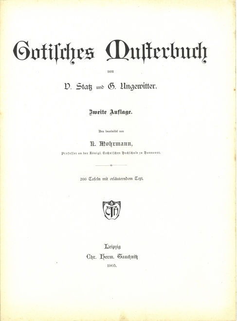 Gothic pattern book